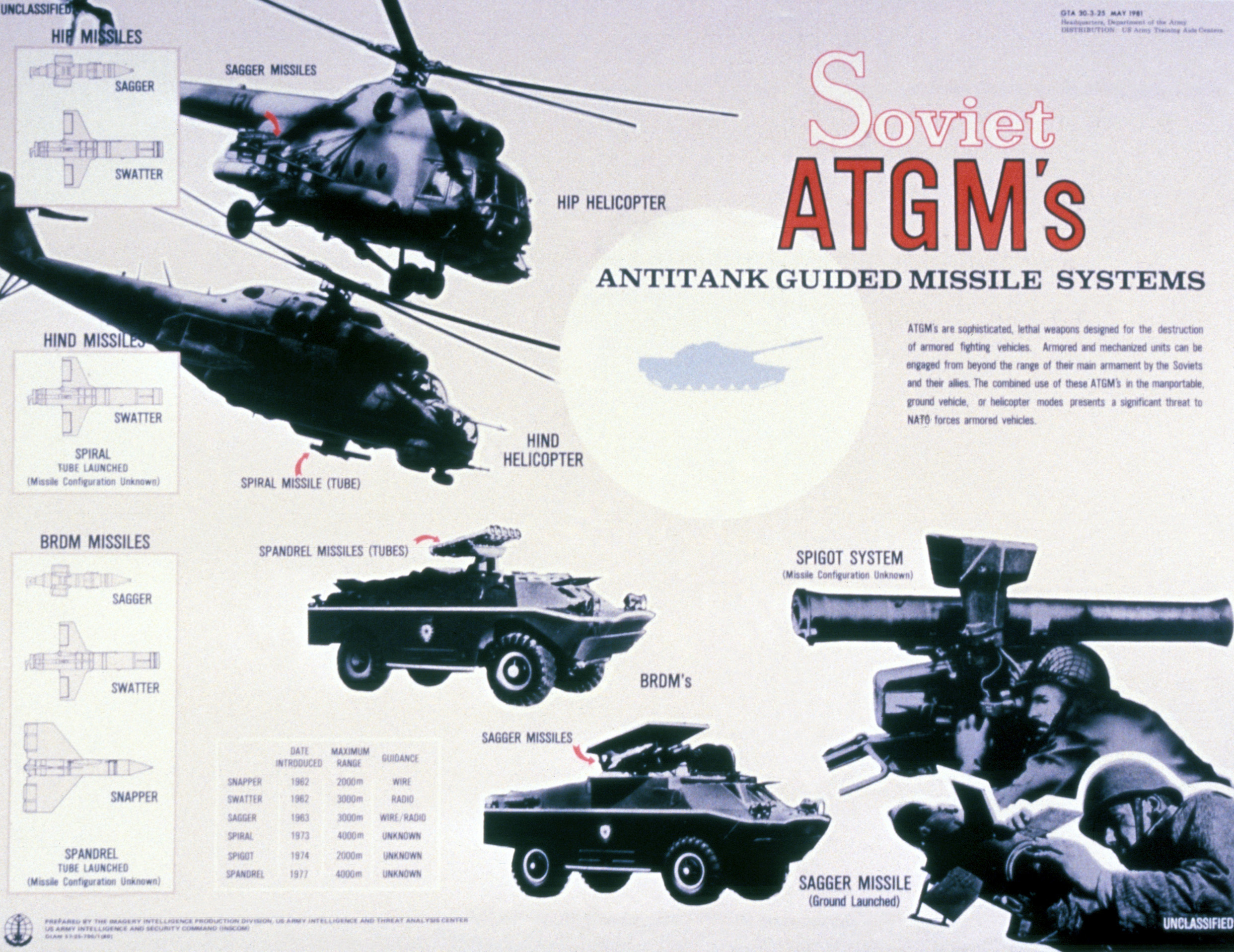 A composite chart illustrating the various types of Soviet anti-tank guided missiles (ATGMs) and their launch platforms.